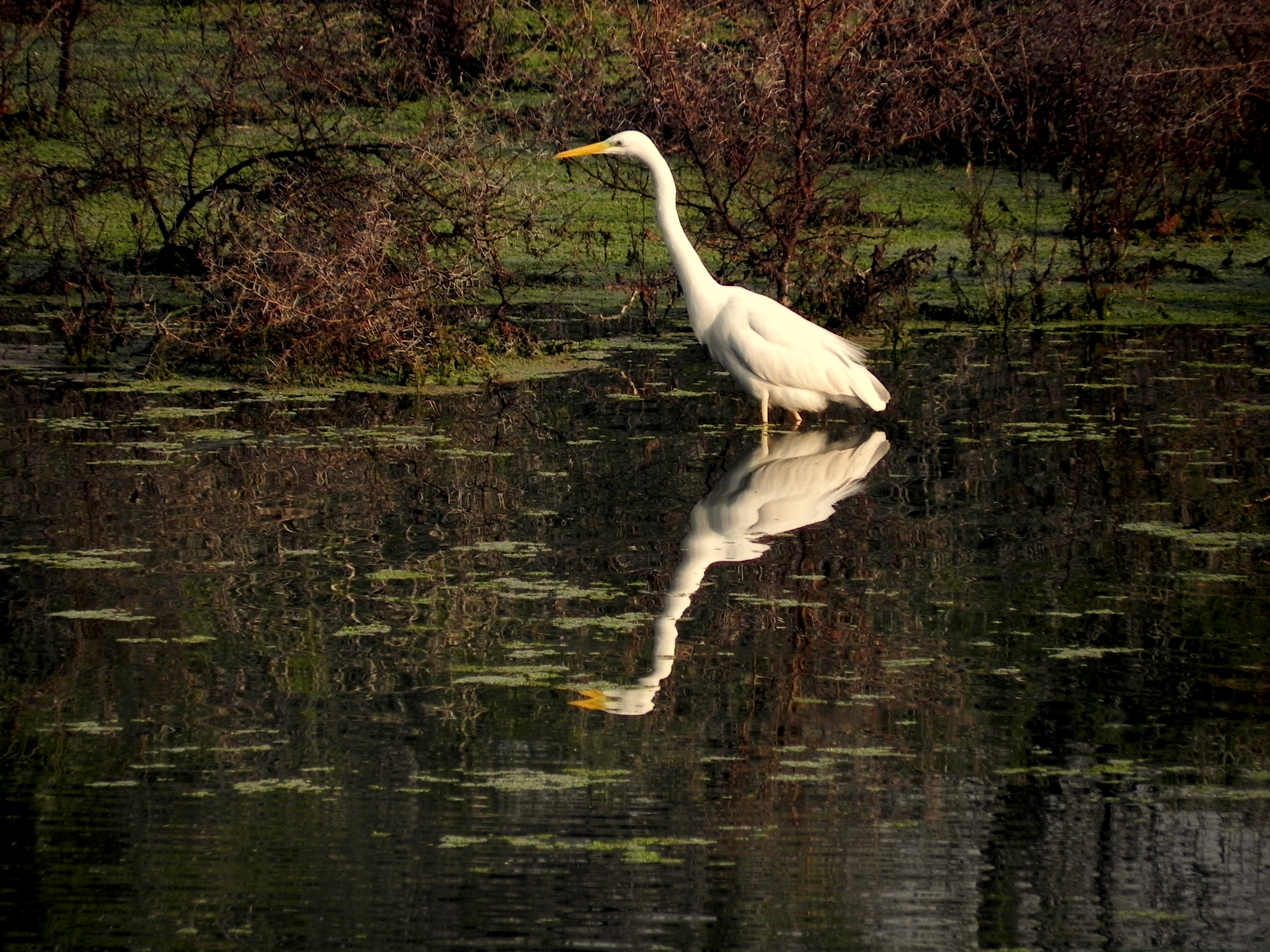 This photograph was taken during my recent visit to Keoladeo National Park in Bharatpur, Rajasthan. The picture captures a Great Egret in the early morning in the wetlands of Keoladeo. This national park is also a World Heritage Site under criteria ix of the UNESCO Conventions. The sanctuary is home to over 350 species of native and migratory birds as well as many species of reptiles and mammals.